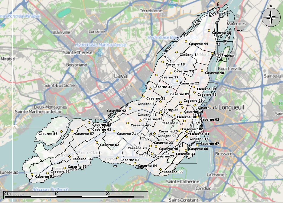 Loaded 3 KML data sets from the City of Montreal to make this map. The "polygones arrondissements", the "casernes des pompiers" and the "hydrogéographie". Loaded into an Open Street Map of the City using Marble.